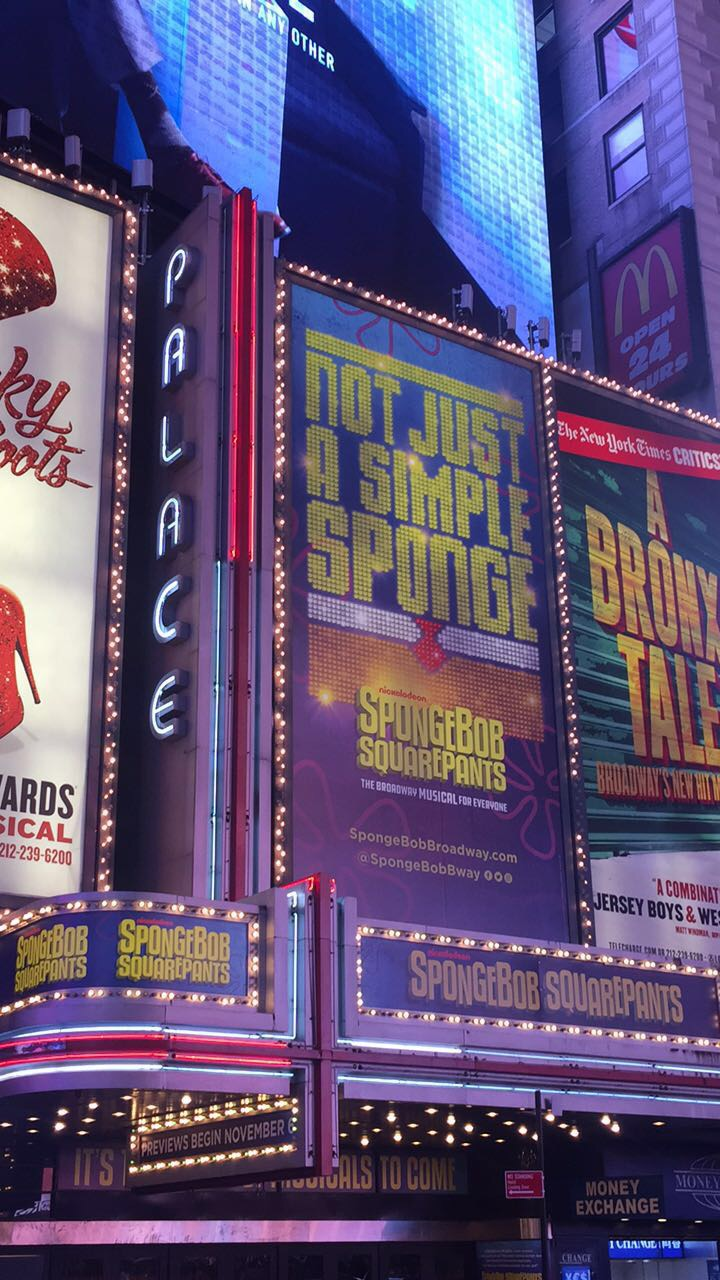 The Palace Theatre in 2017